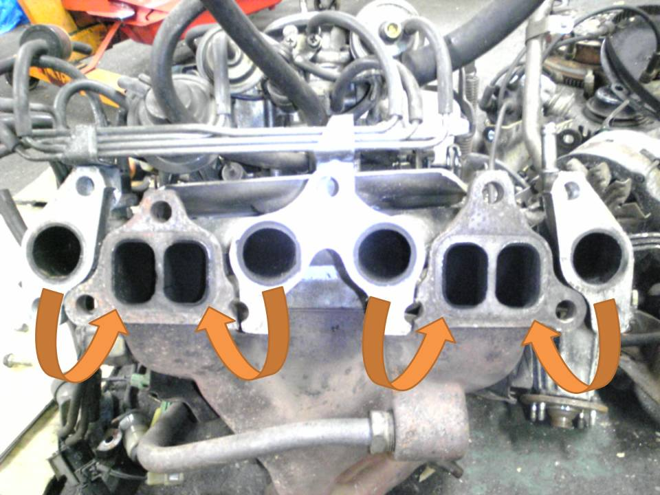 Intake (1st,4rd,5th and 8th opening from left) and exhaust (2nd, 3rd, 6th,7th) manifold of four-cylinder engine.